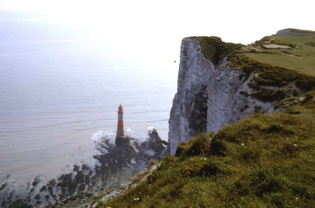 Beachy Head and Lighthouse